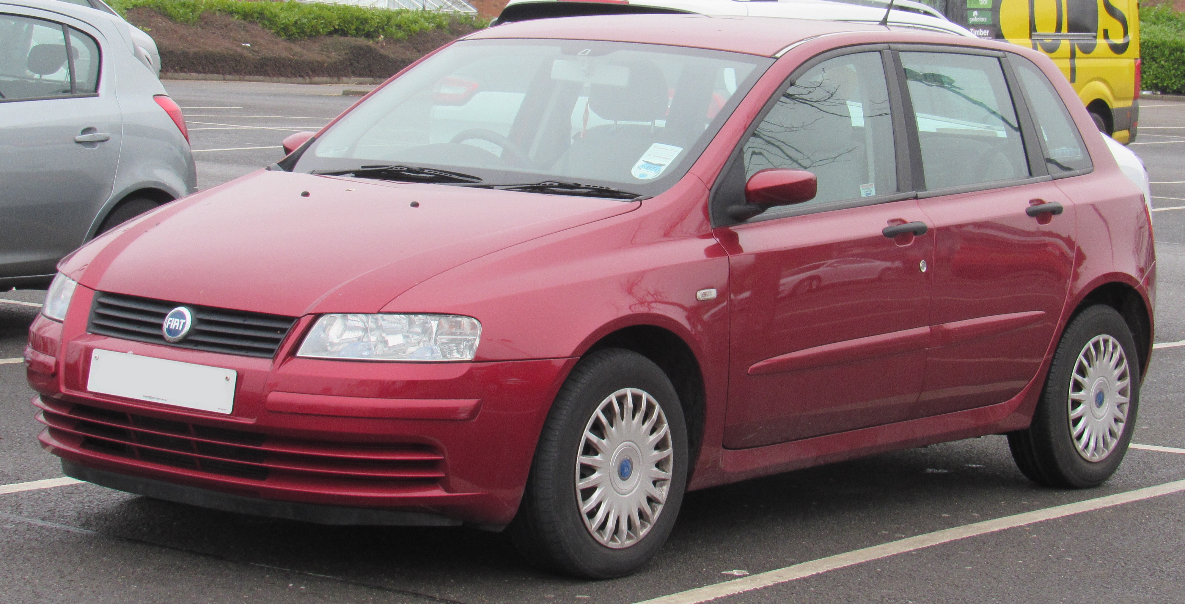 2004 Fiat Stilo Active 16V 1.4 Front Taken in Leamington Spa